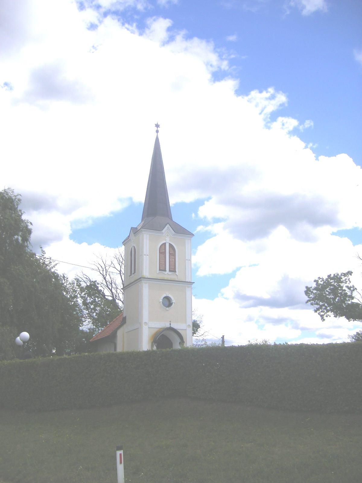 Andrejci - Andorhegy (Moravske Toplice municipality)